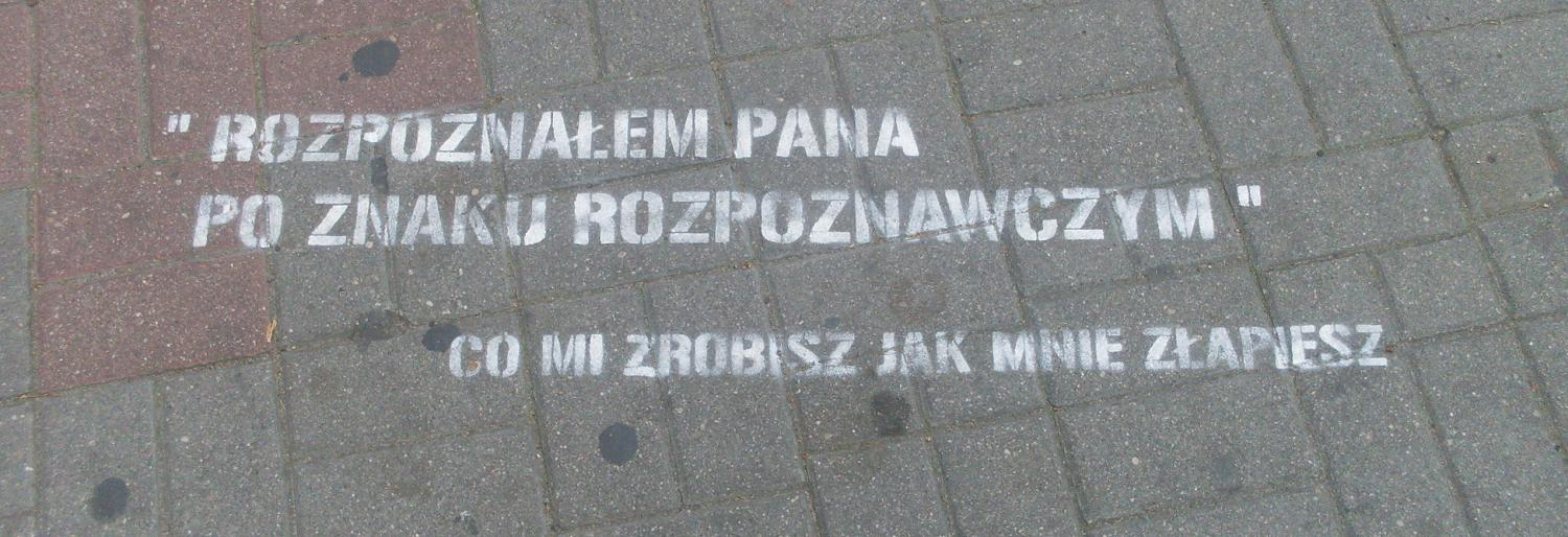 Quotation from polish film "What Will You Do When You Catch Me?". Painting on a pavement on the 10 Lutego Street in Gdynia. Promoting Polish Film Festival in Gdynia.